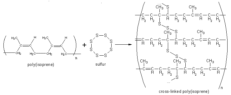 I fixed the original vulcanization image, which had double bonds in the wrong places and didn't have methyl bonds where they should have been.